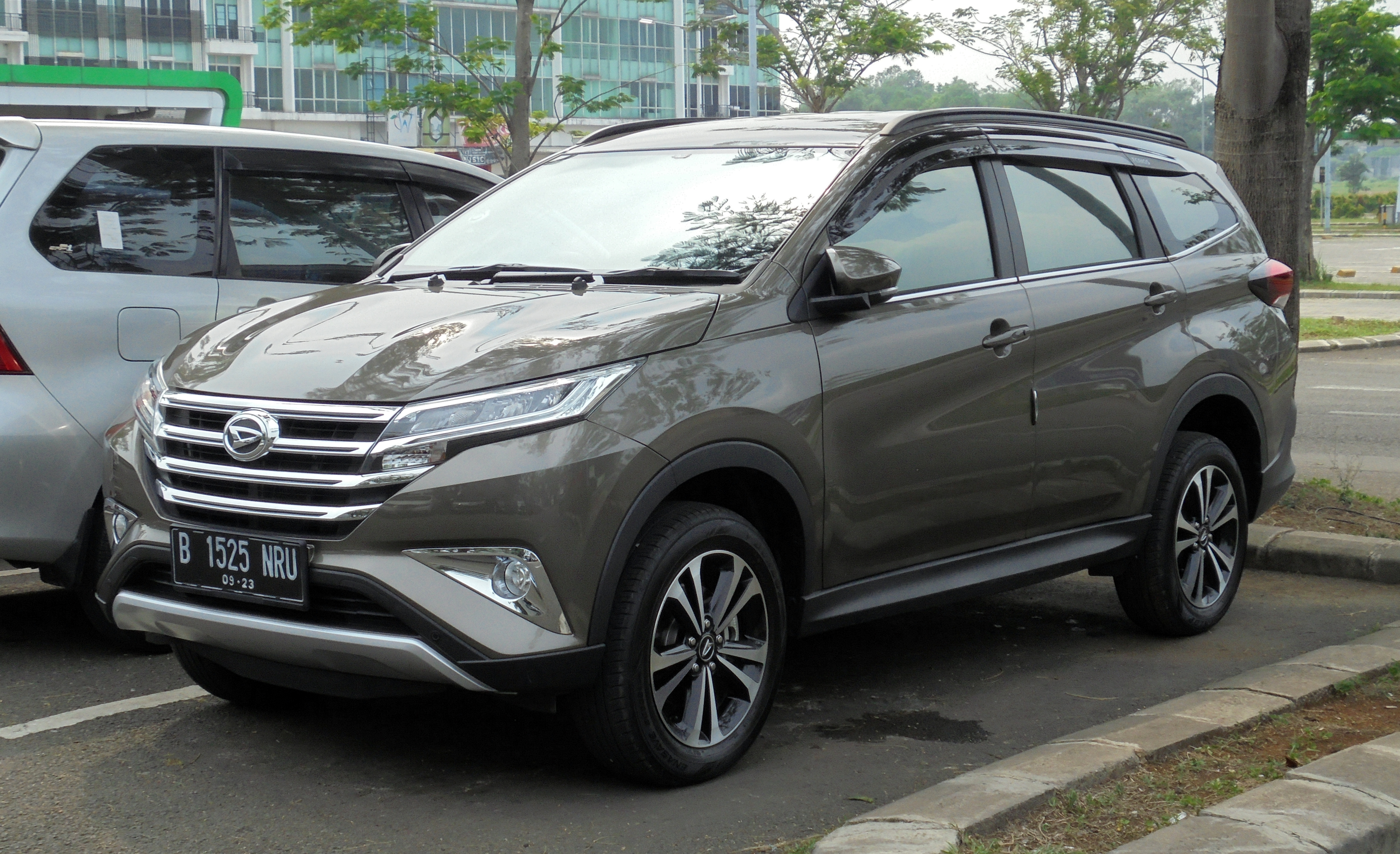 2018 Daihatsu Terios 1.5 R wagon (F800RG) photographed in South Tangerang, Banten, Indonesia.